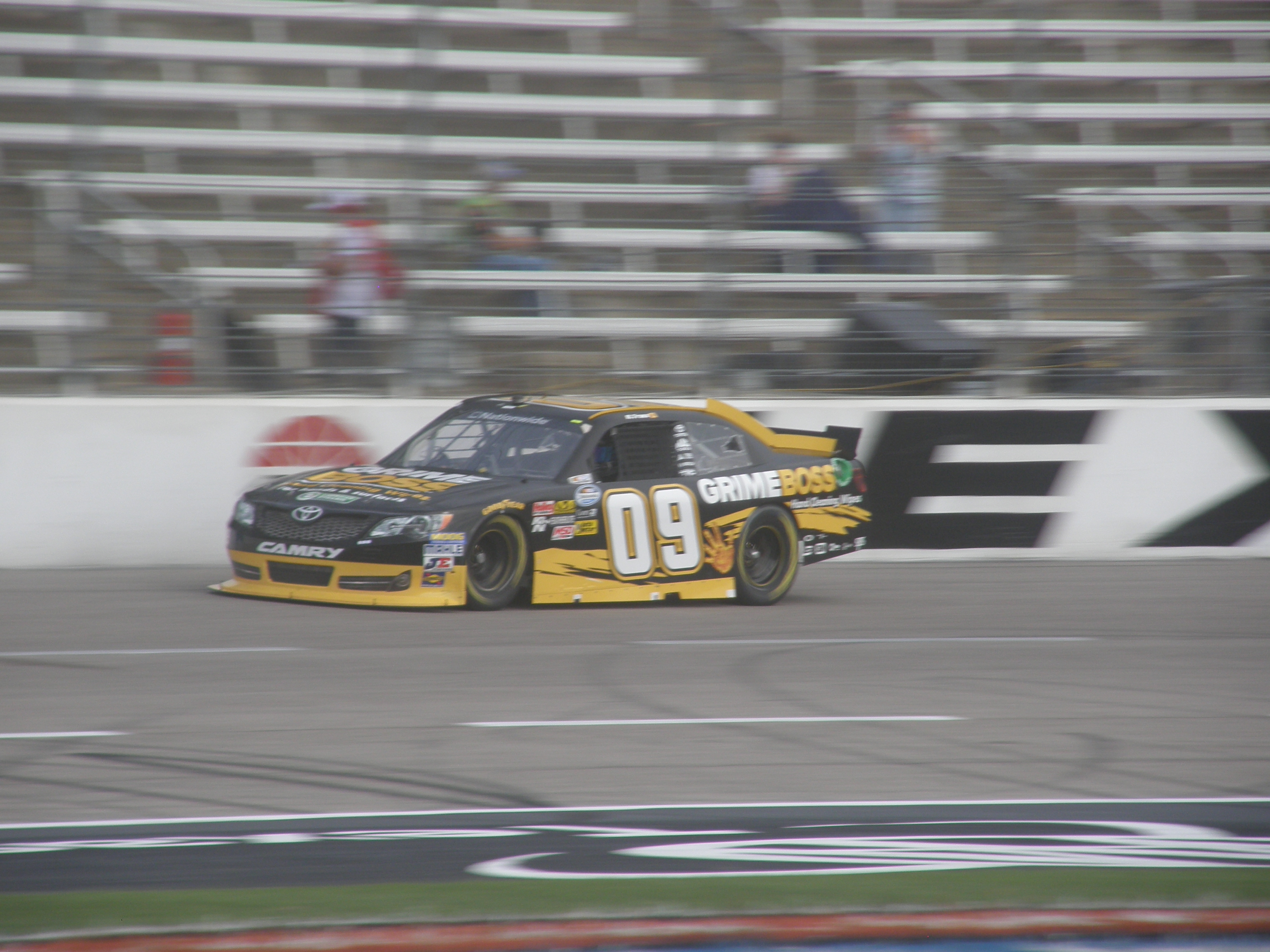 Ryan Truex driving the Toyota No. 09 in Texas Motor Speedway